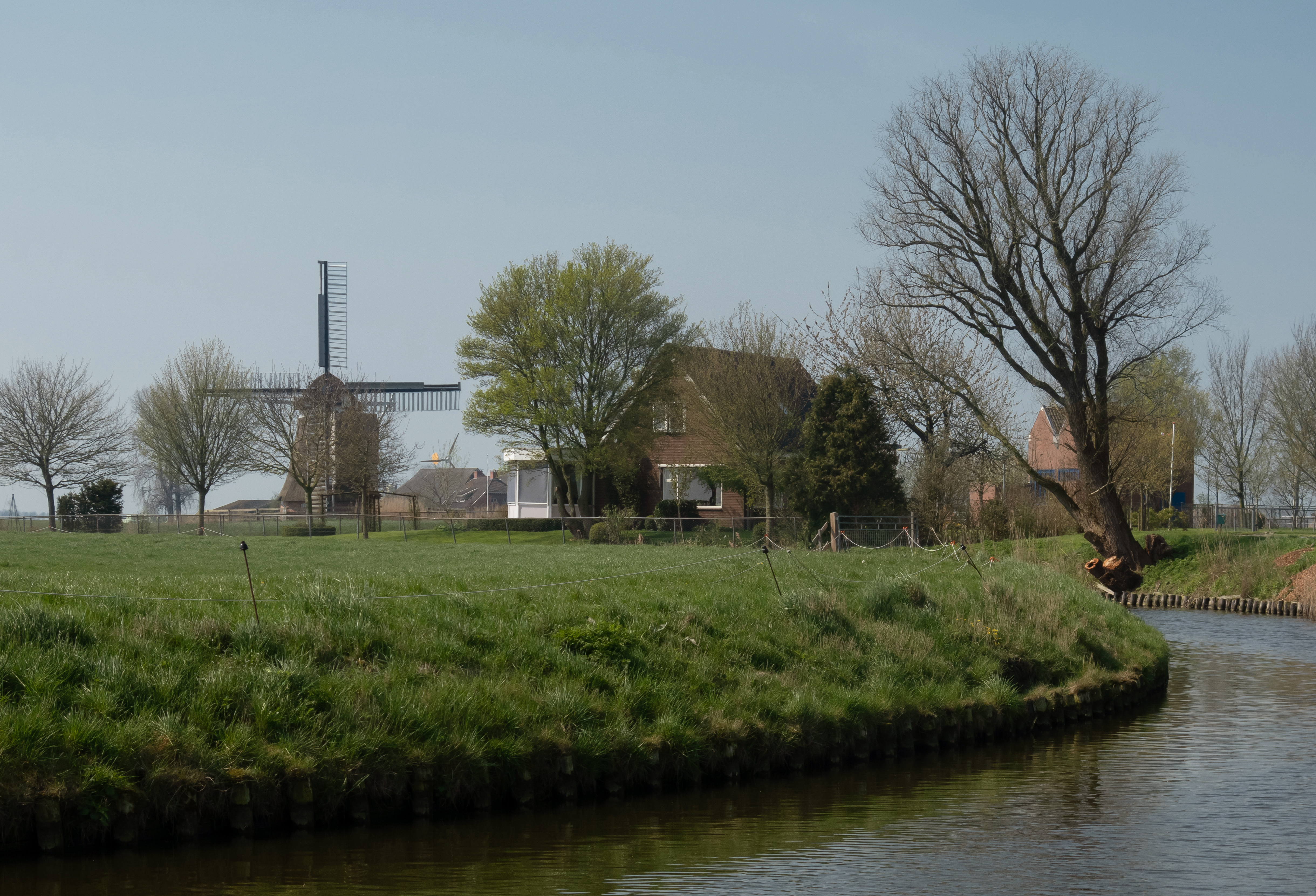 Garreslweer, windmill: poldermolen de Meervogel